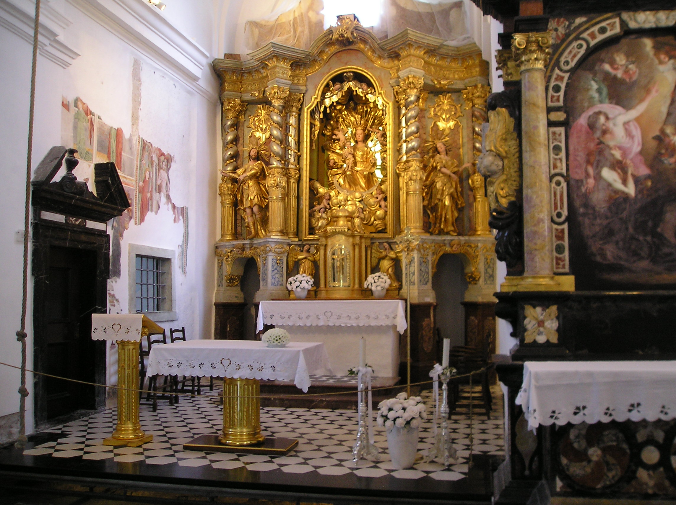 Lake Bled Church